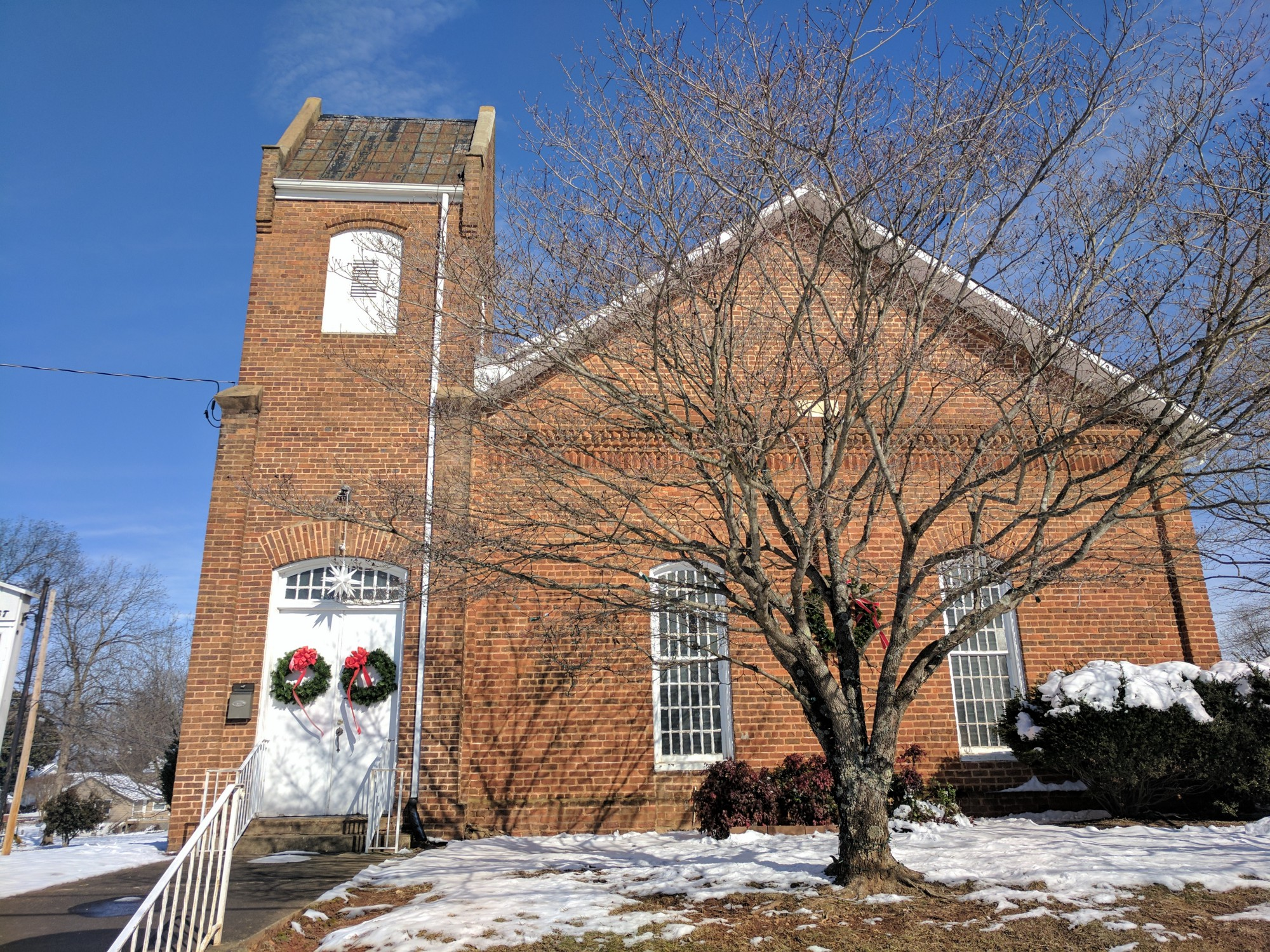 Main entrance of church, taken from across the street.